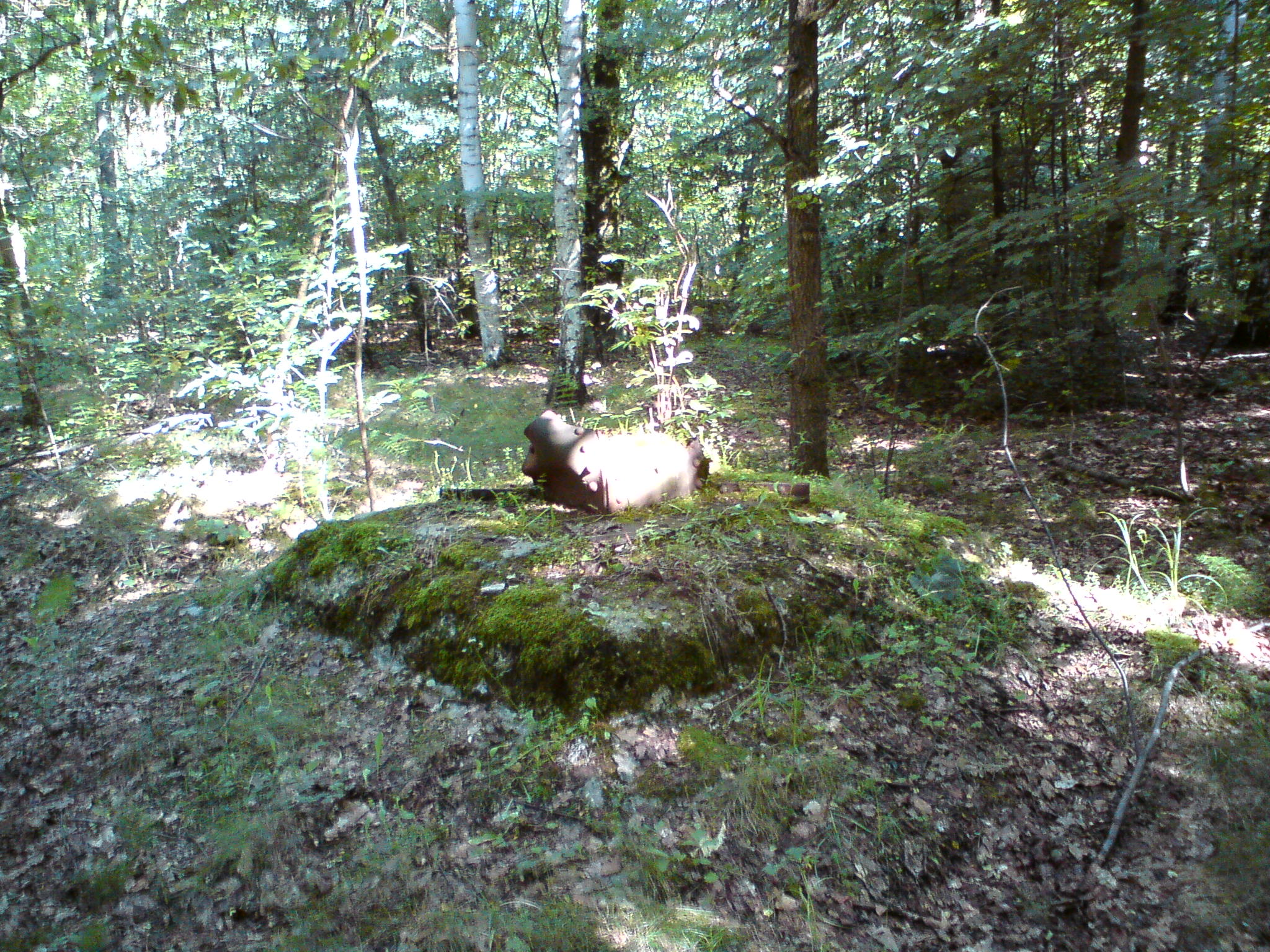 Remains of one of the masts of Transatlantycka Centrala Radiotelegraficzna